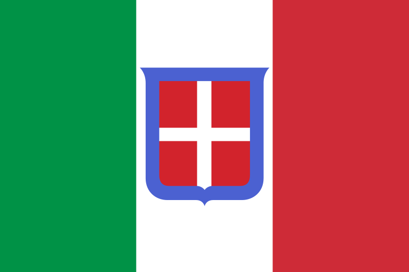 Flag of the Kingdom of Italy from 1861 to 1946.